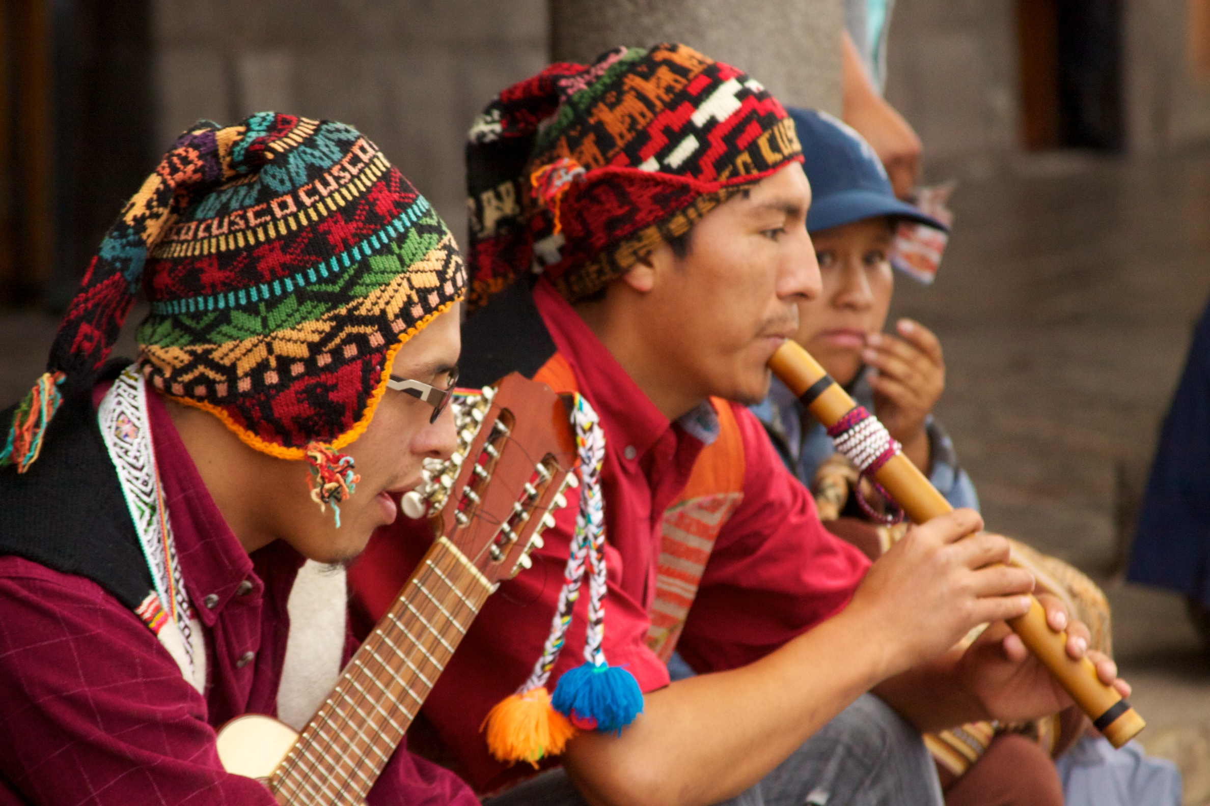 Catching a large fiesta of traditional dance in the Plaza de Armas. Each group wore widely varied and bright costumes and paraded and practiced around the square before dancing officially for a panel of judges in front of the cathedral. I loved all the colours and exuberance they displayed and especially that it wasn't at all done for tourist show (although they were happy to show off their costumes for photos).